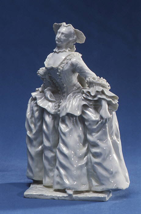 British, Bow; Figure; Ceramics-Porcelain